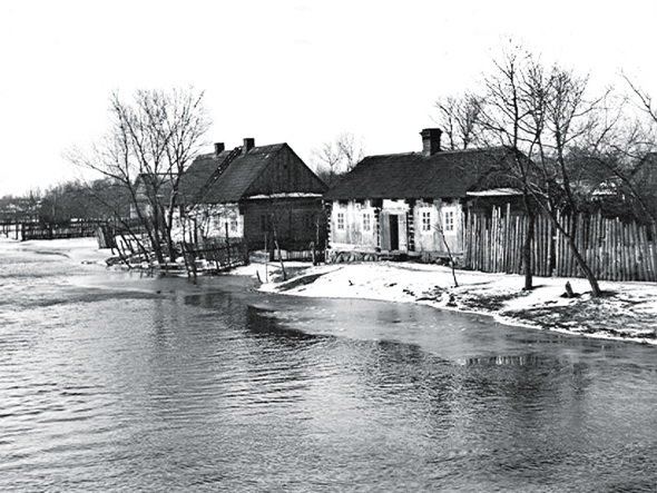 Mukhaviets in Pruzhany.